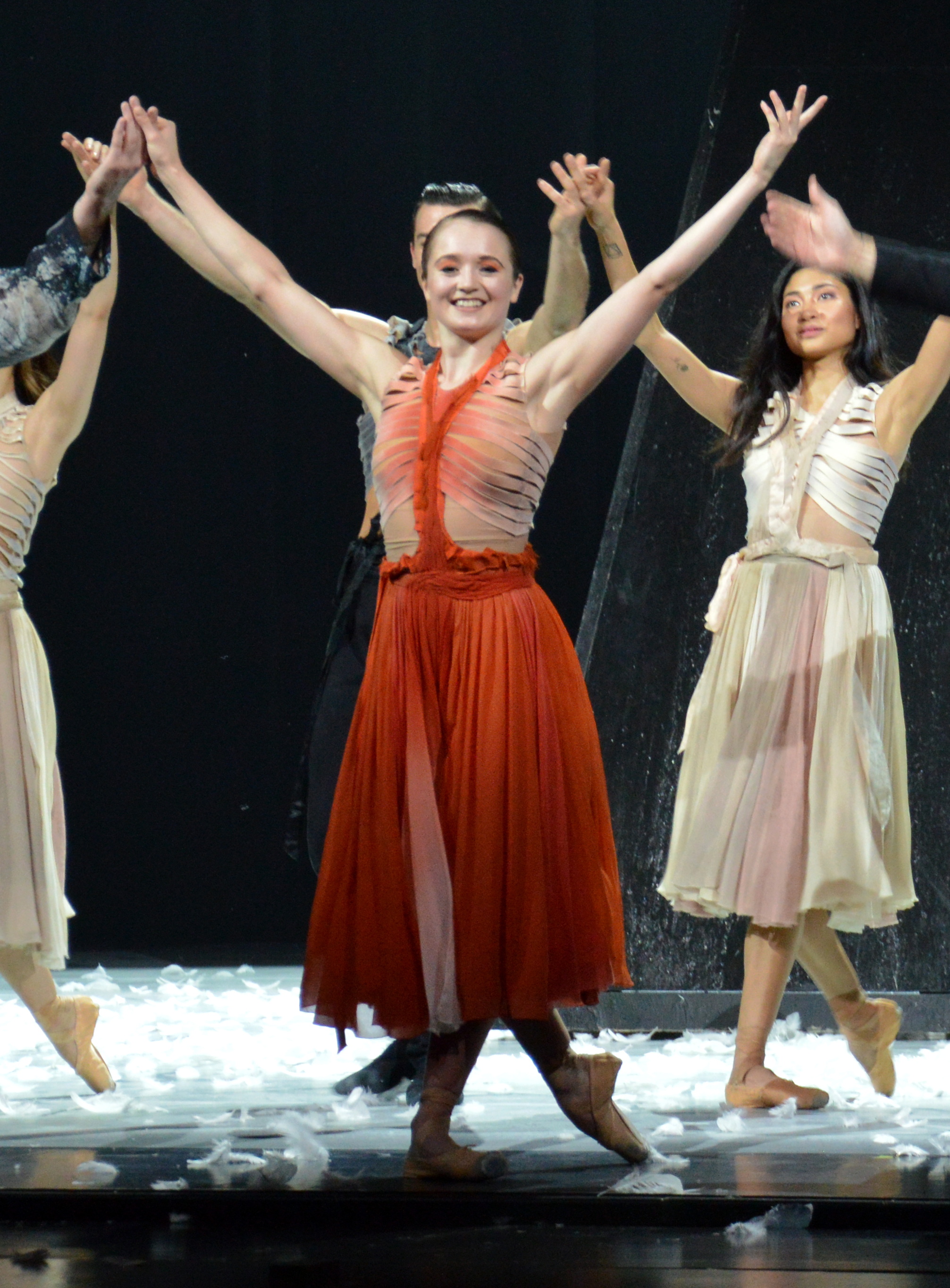 Nancy Osbaldeston bowing after the performance of L'Oiseau de Feu for Ballet Vlaanderen in Ghent, October 15, 2017.